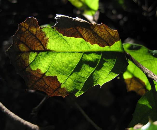 Infection of P. ramorum at a site in the UK. DEFRA is monitoring closely for signs of hybridisation with P. taxon C sp. nov.